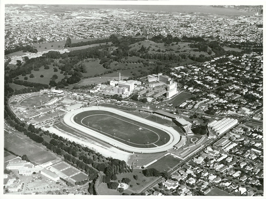 Alexandra Park Trotting course Epsom. A&P show grounds (Easter Show) adjoining, Green Lane and National Womens Hospitals across the road. Photographer: G. Riethmaier. April 1973, Auckland Archives New Zealand Reference: AAQT 6539 W3537 131 / B2345 For further enquiries Material from Archives New Zealand Te Rua Mahara o te Kāwanatanga